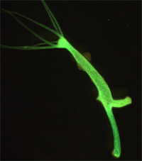 GFP marked endodermal epithelial cells in transgenic Hydra vulgaris strain AEP